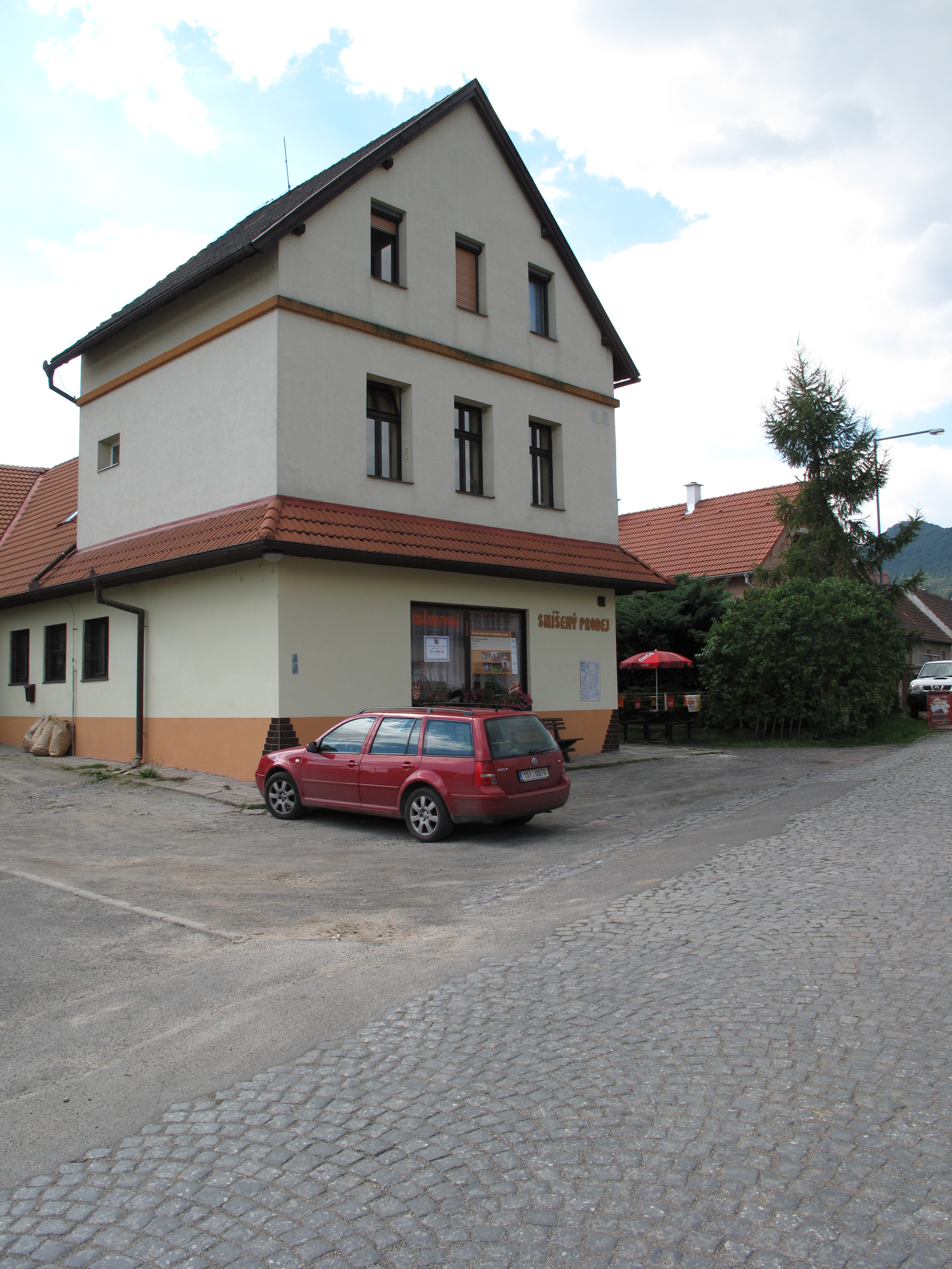 Composite goods in Malé Žernoseky village, Litoměřice District, Czech Republic.